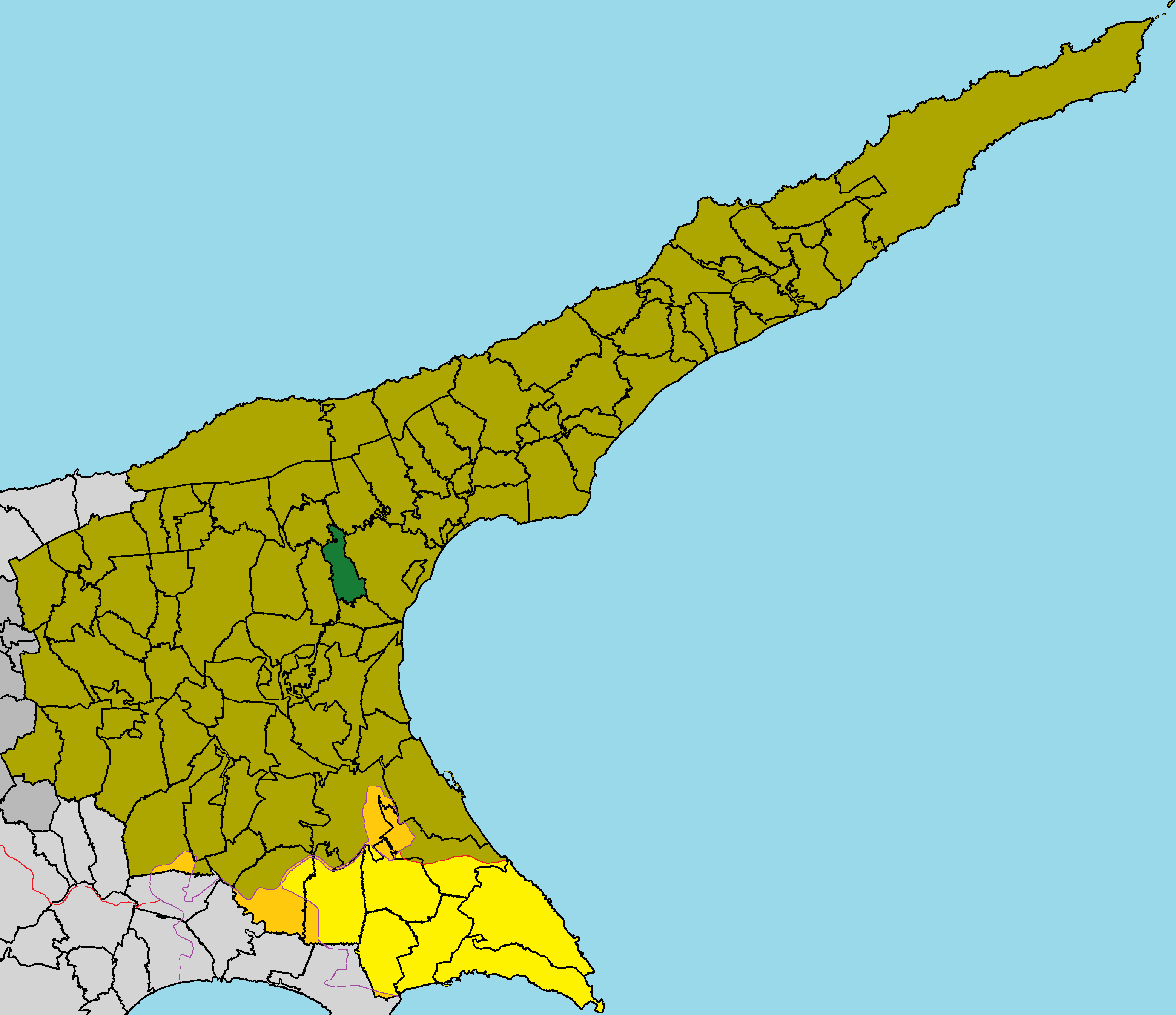 Sygkrasi in Famagusta District (de jure).